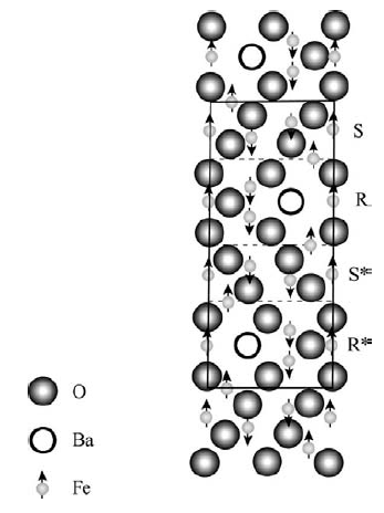 Baarium ferriidi elementaarrakk